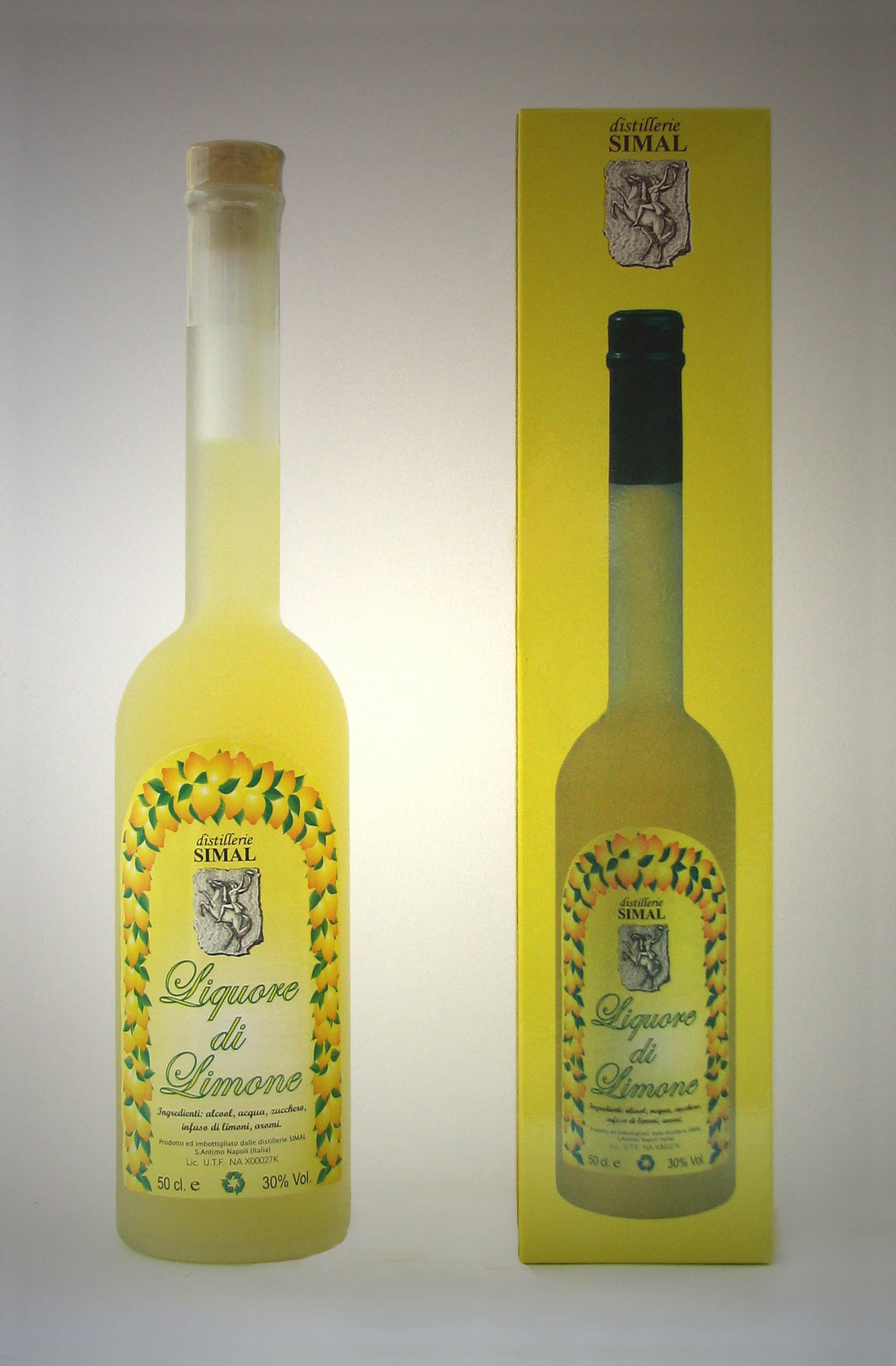 limoncello jp